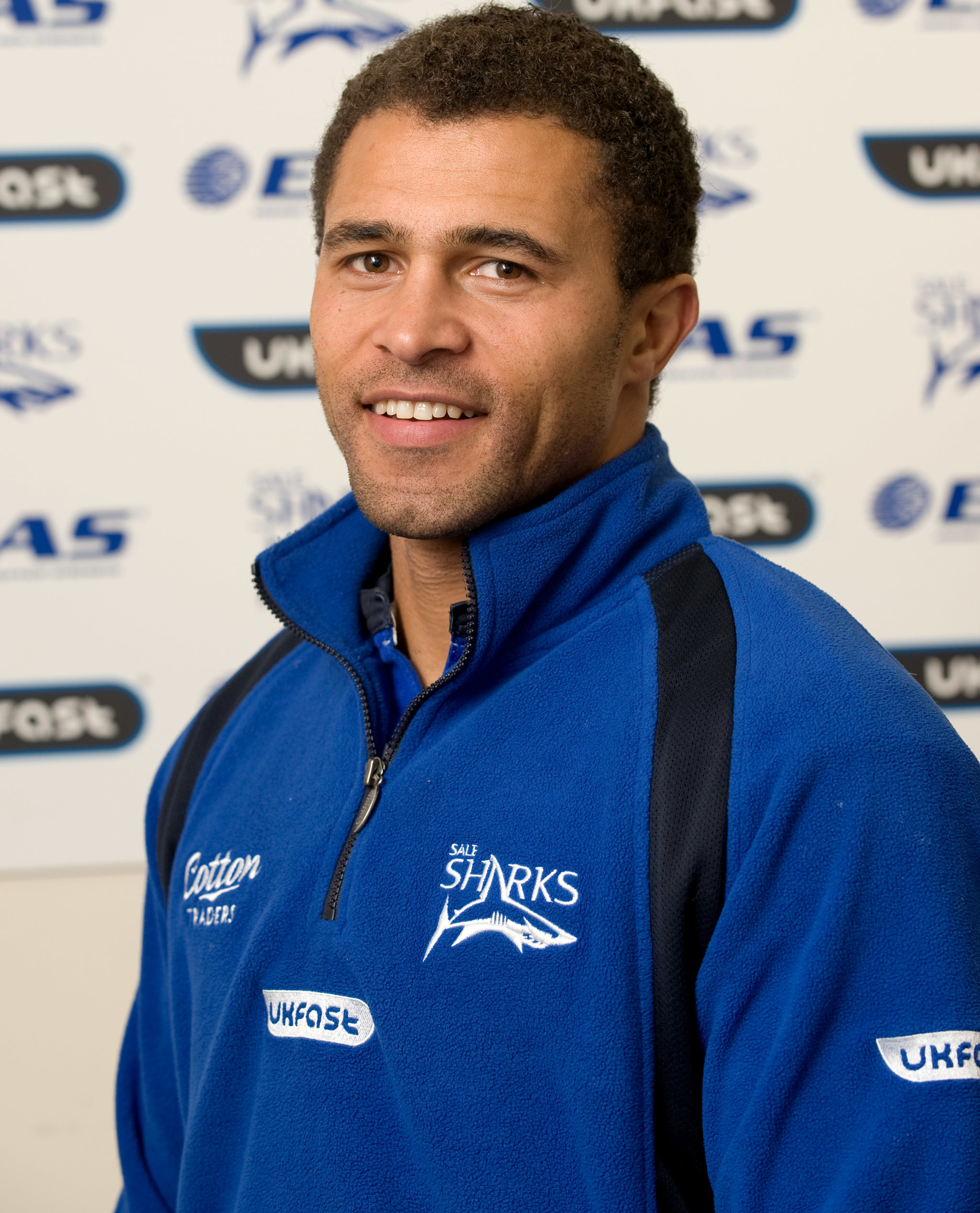 The University of Salford has signed a one year sponsorship deal with Guinness Premiership rugby union team Sale Sharks - providing the team with access to Salford's state-of-the-art fitness labs. See this link to the story